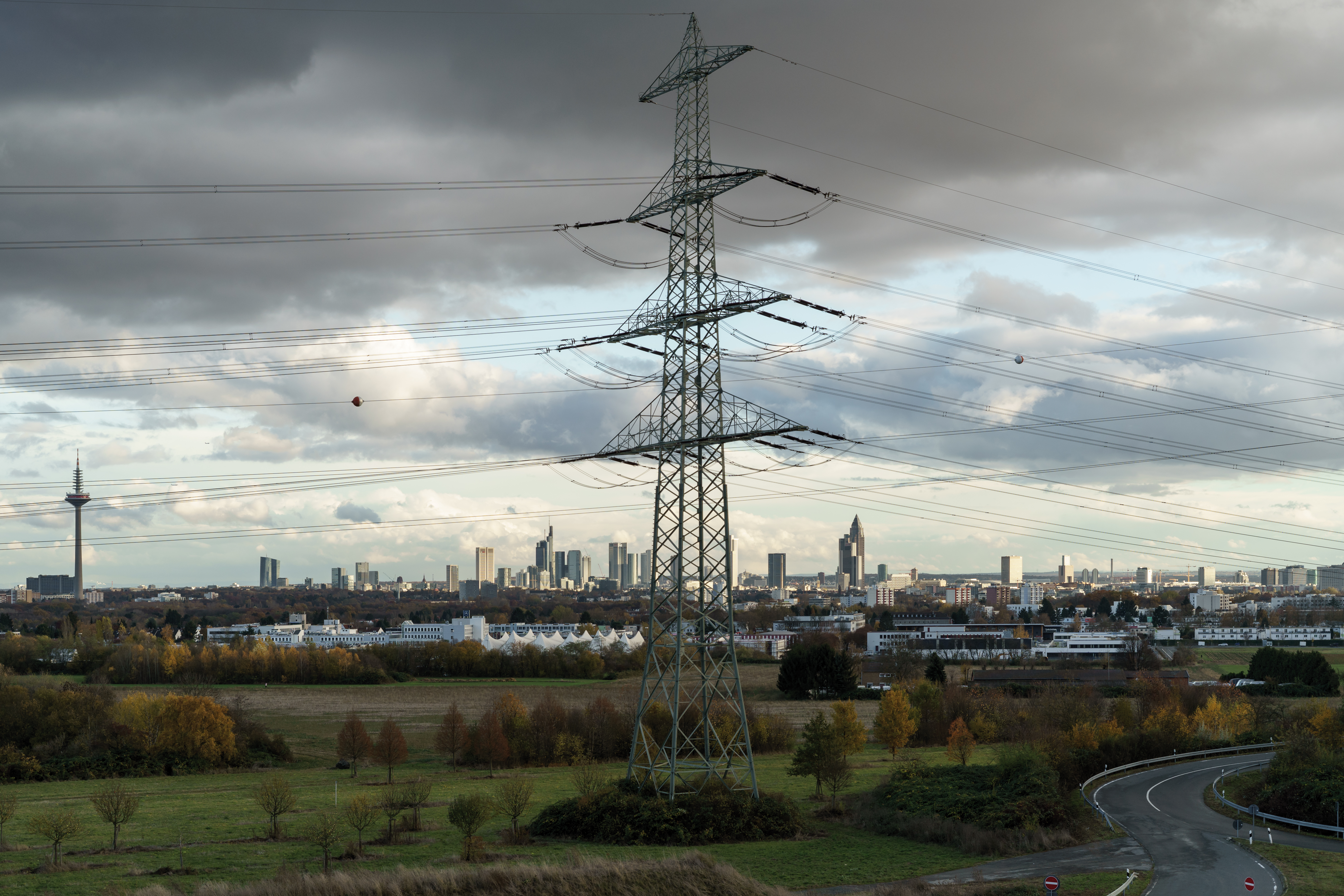 Skyline of Frankfurt (Main) with 380/220 kV transmission tower - view from Raststätte Taunusblick